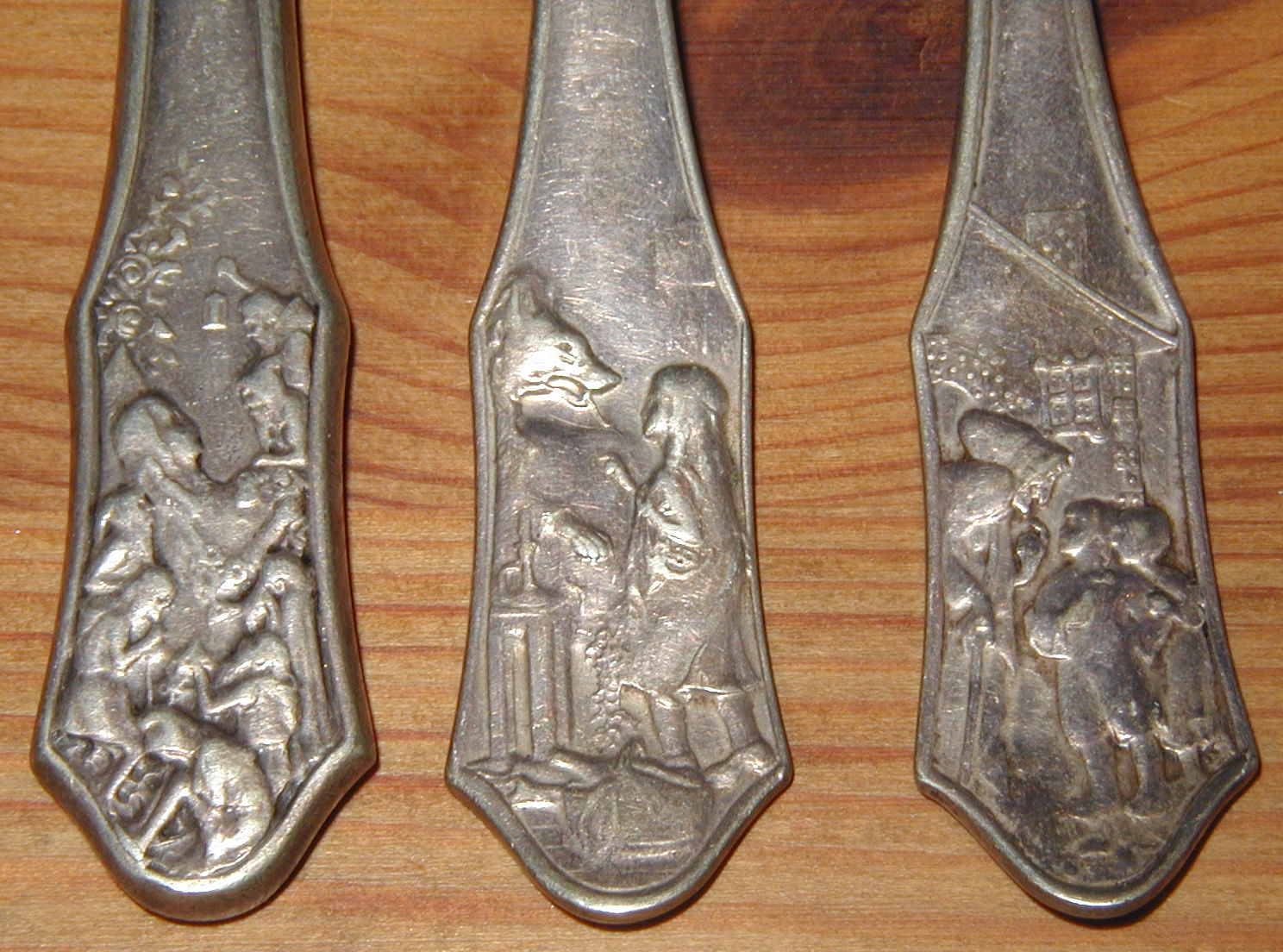 Cutlery for children. Detail showing fairy-tale scenes. Picture taken and uploaded by Roger McLassus (owner).